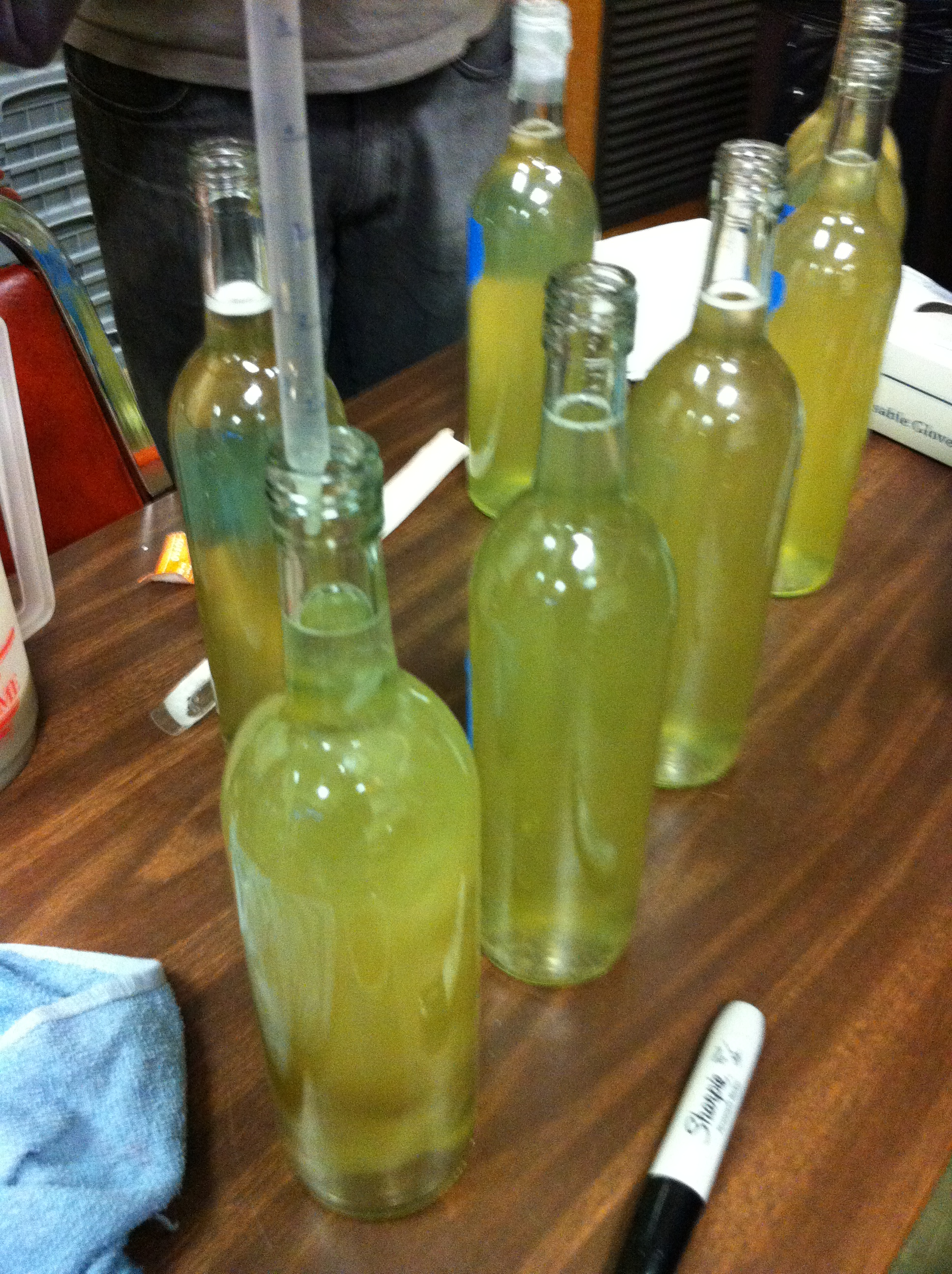 Adding Bentonite fining agent in various mL dosage to test bottles of wine. These bench trail test will show what dosage has what effect on the clarity and stability of the wine.